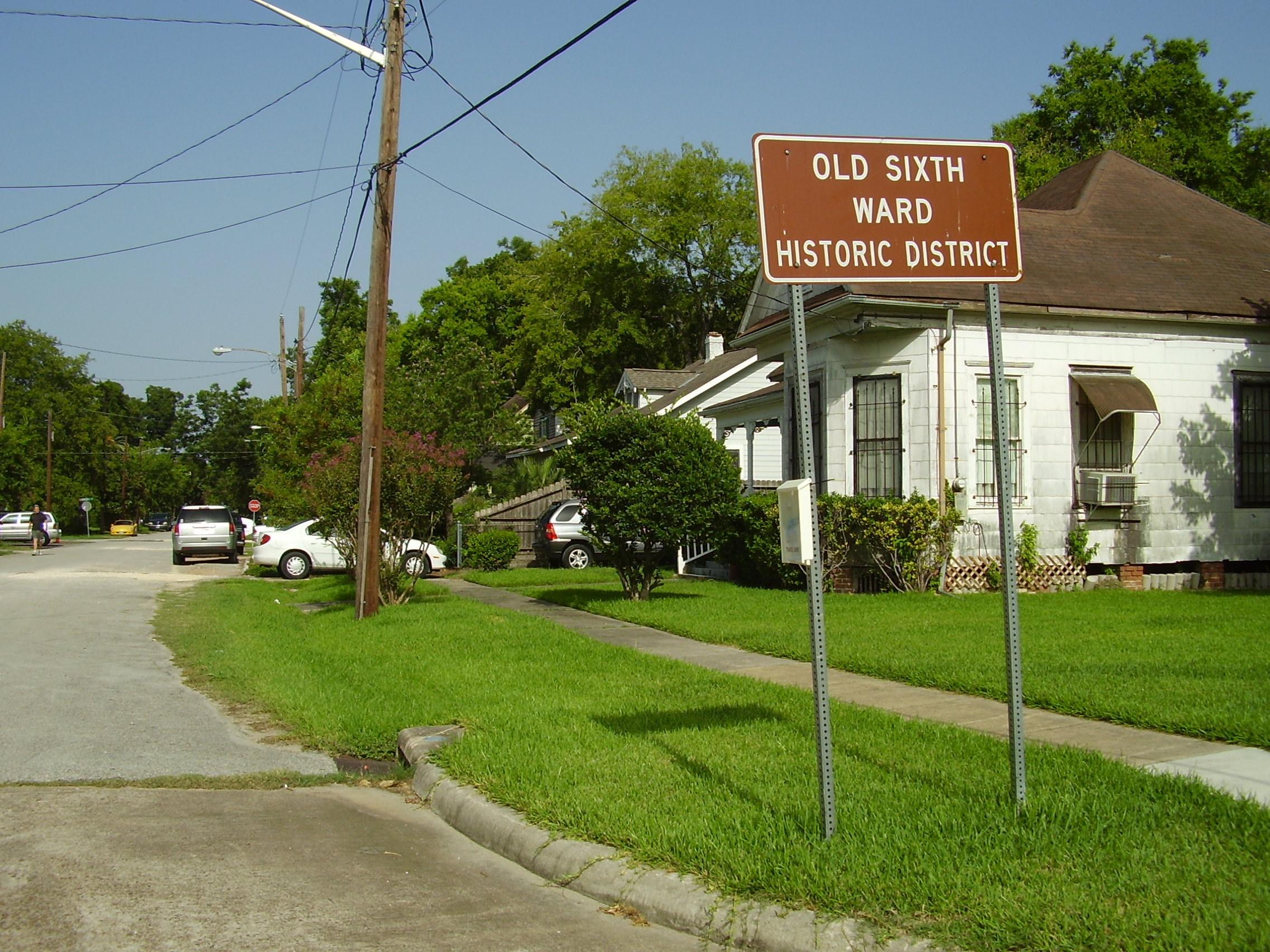 Old Sixth Ward Historical District